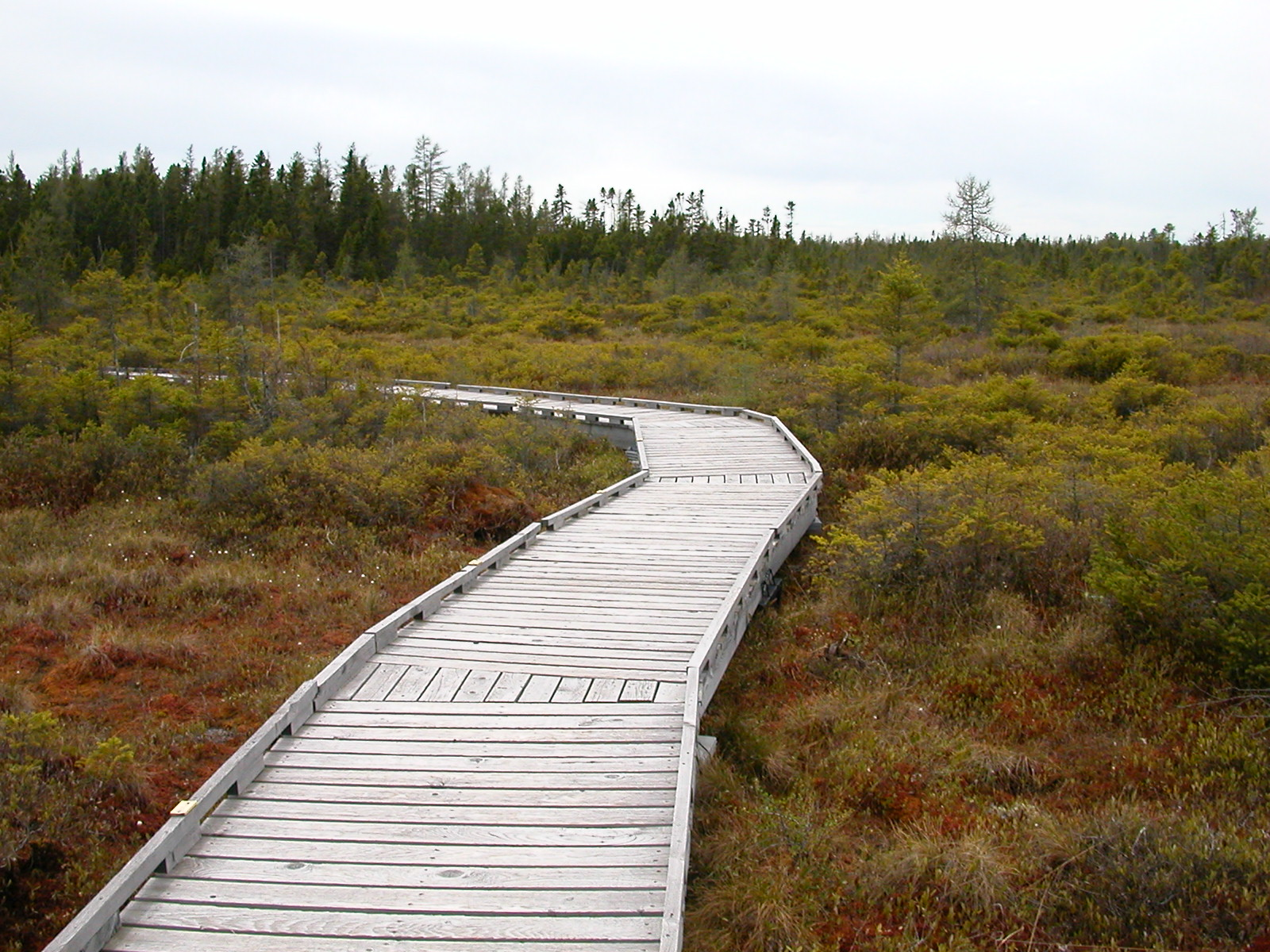 The boardwalk through the Orono Bog in Maine